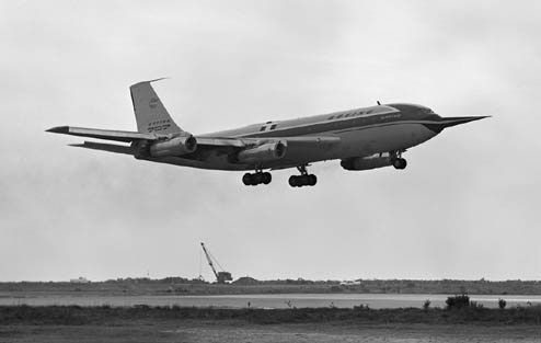 Boeing 367-80 (N70700) prototype for the 707 jet transport landing at Oakland, CA airport.